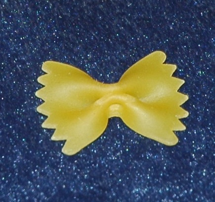 One farfalla pasta shape, uncooked.